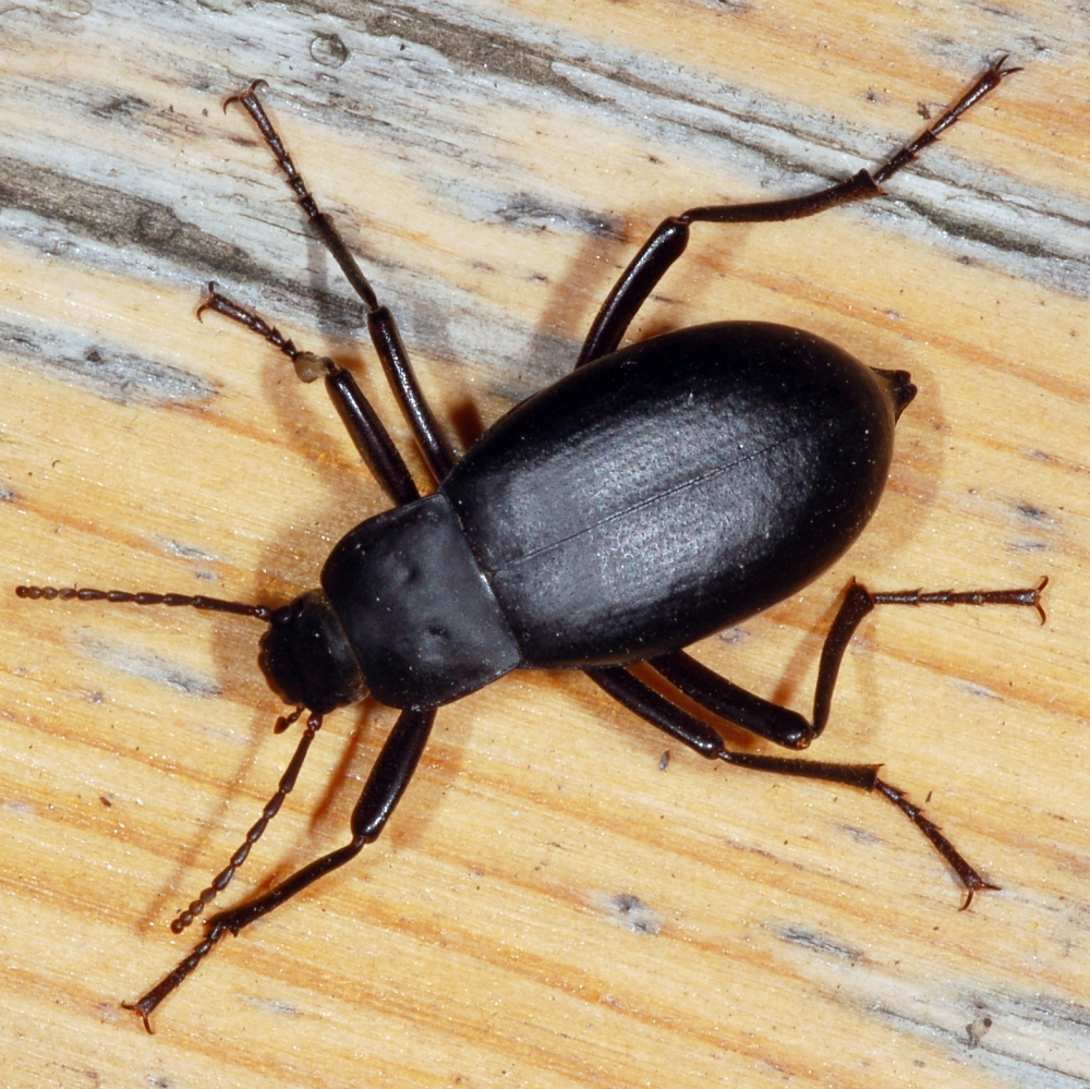 Blaps mortisaga, Nied, Frankfurt/Main, Germany